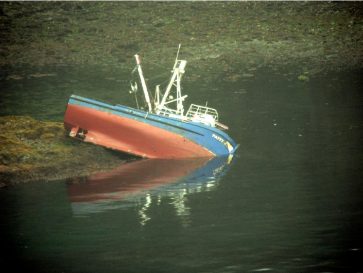 The American fishing vessel Patty J stranded on a reef outside Square Cove near Juneau, Alaska.